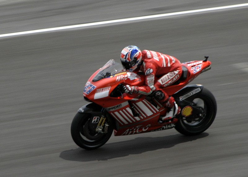 Casey Stoner @ PSB and MotoGP in Malaysia